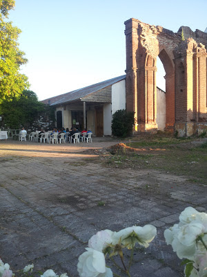 Después de la destrucción de la Iglesia con el terremoto del 2010, ésta se siguió utilizando para hacer misas.